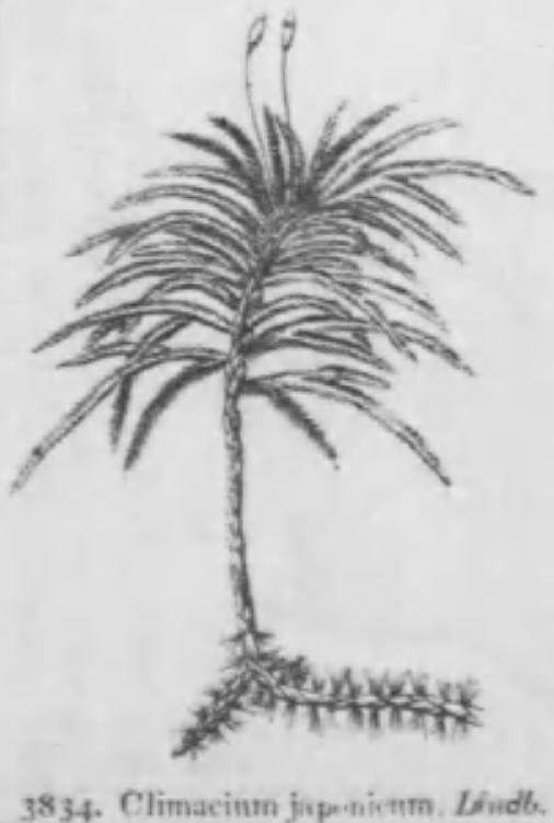 Climacium japonicum